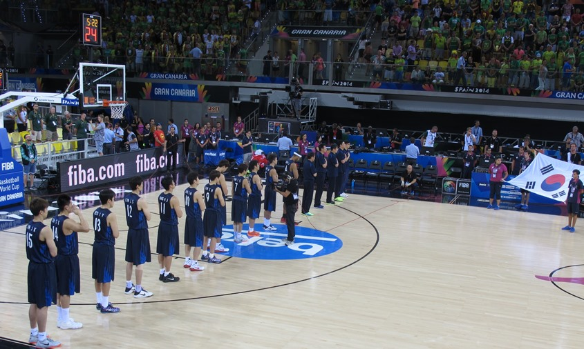 Professional players taken during a game